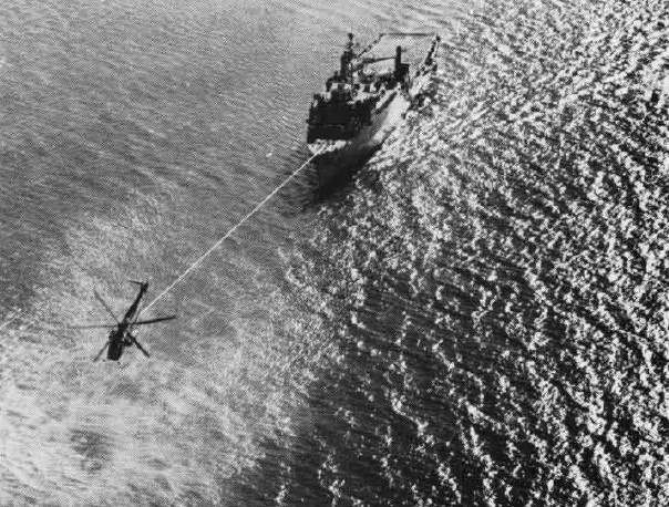 A U.S. Navy Sikorsky RH-53A of helicopter mine countermeasures squadron HM-12 Sea Dragons pulling an Austin-class LPD in 1971.